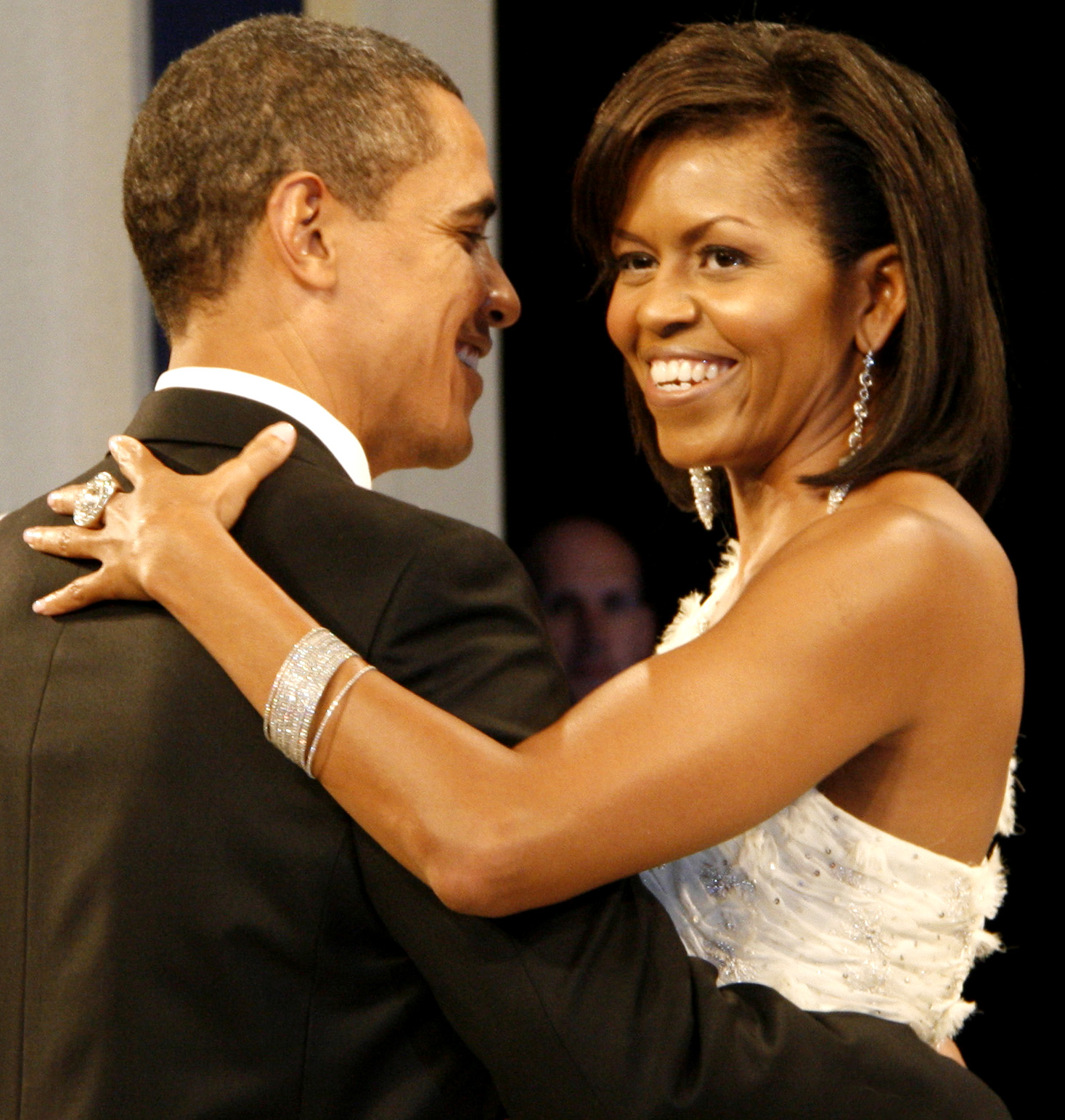 President Barack Obama and the First Lady Michelle Obama dancing at the "Obama Home States Inaugural Gala." The event took place at the Walter E. Washington Convention Center in Washington, D.C.